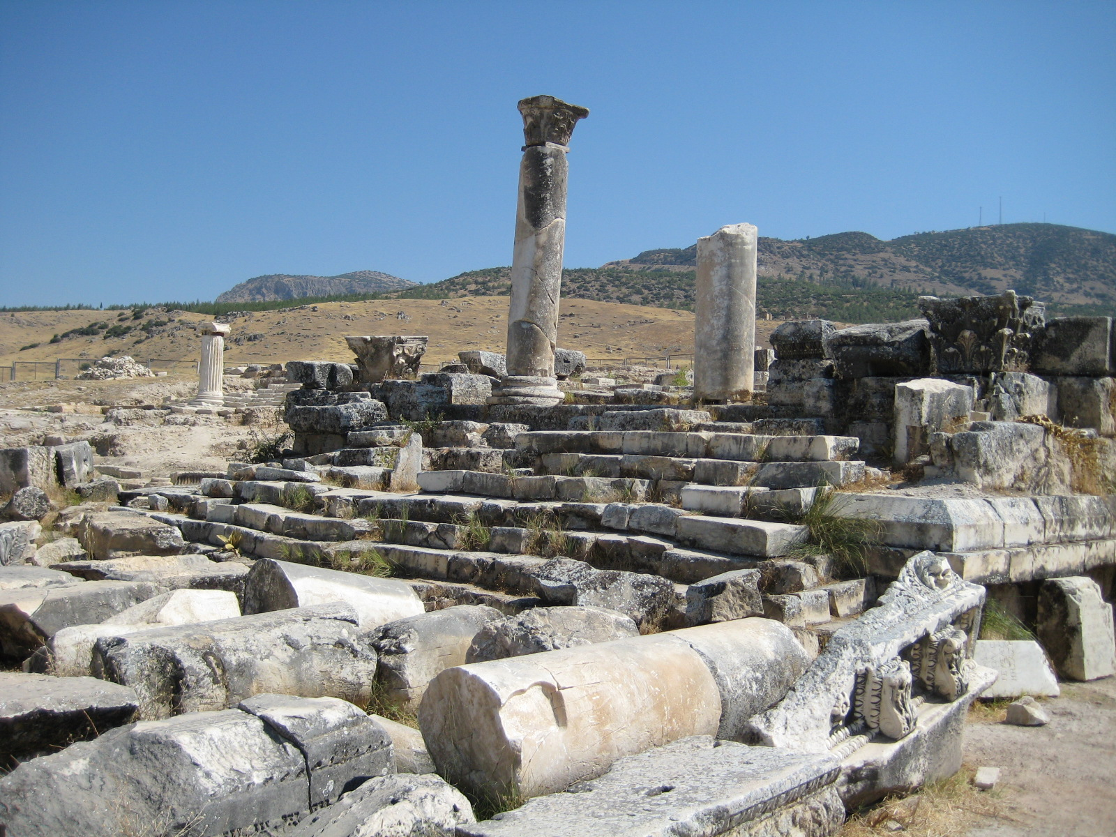 Plutonium